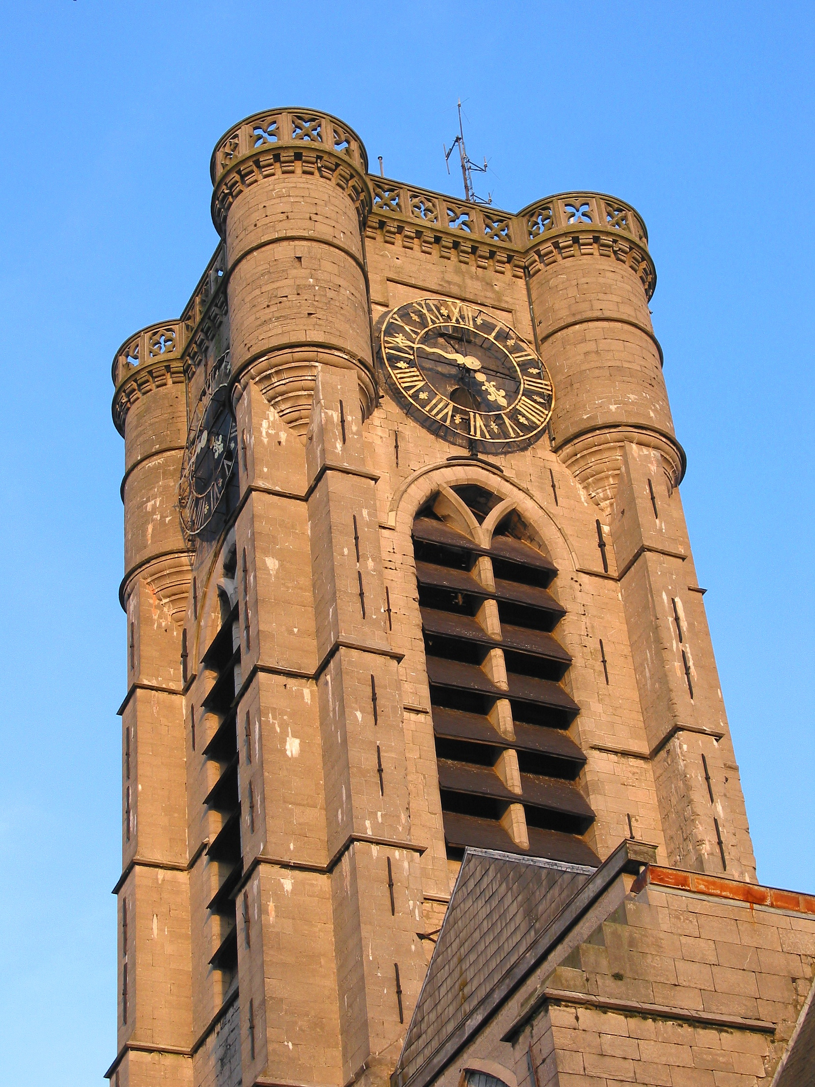 Ath (Belgium), the tower of the Saint Julien colegiate church (1462).